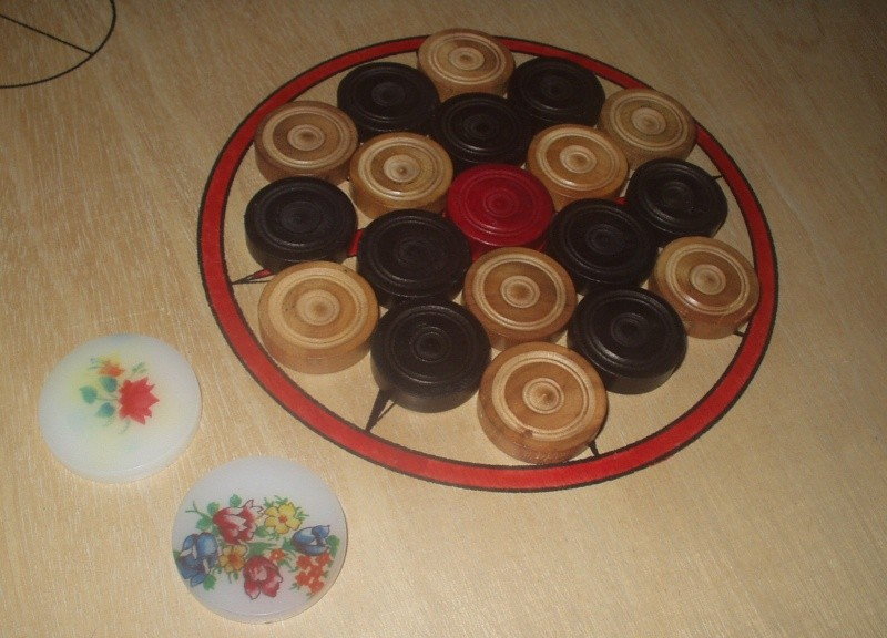 Carrom men